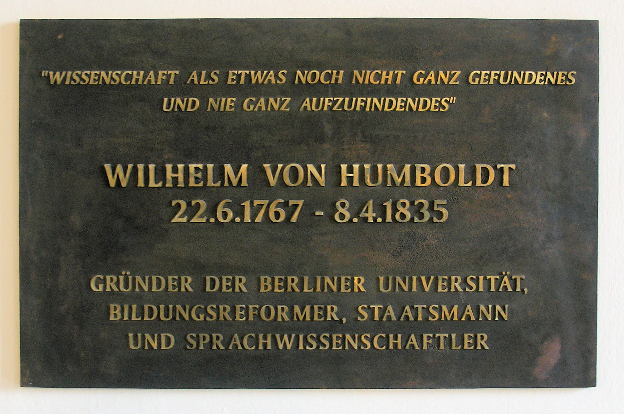 Memorial plaque, Wilhelm von Humboldt, Unter den Linden 6, Berlin-Mitte, Germany Koordinate:52°31′5″N 13°23′37″E / 52.51806°N 13.39361°E